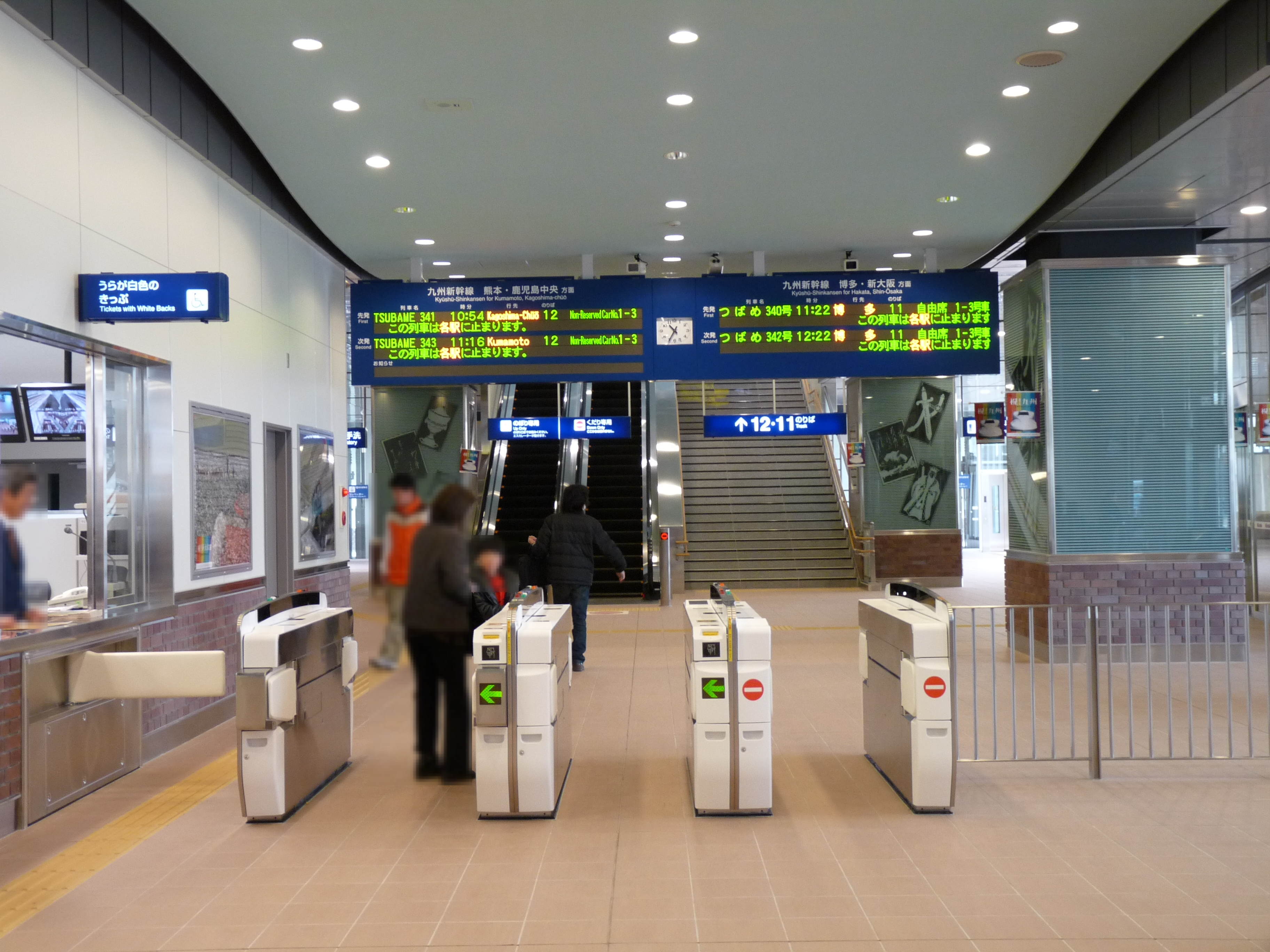 Ticket gates of Shin-Omuta Station, Kyushu Shinkansen